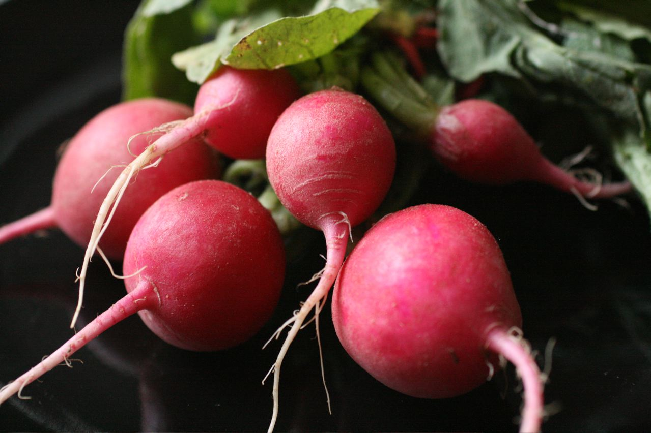 1/4 lb. radishes produced through community-supported agriculture